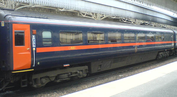 A British Rail Mark 3 coach in the colours of Great North Eastern Railway (GNER) photographed at Aberdeen station, on the 21st June 2006.